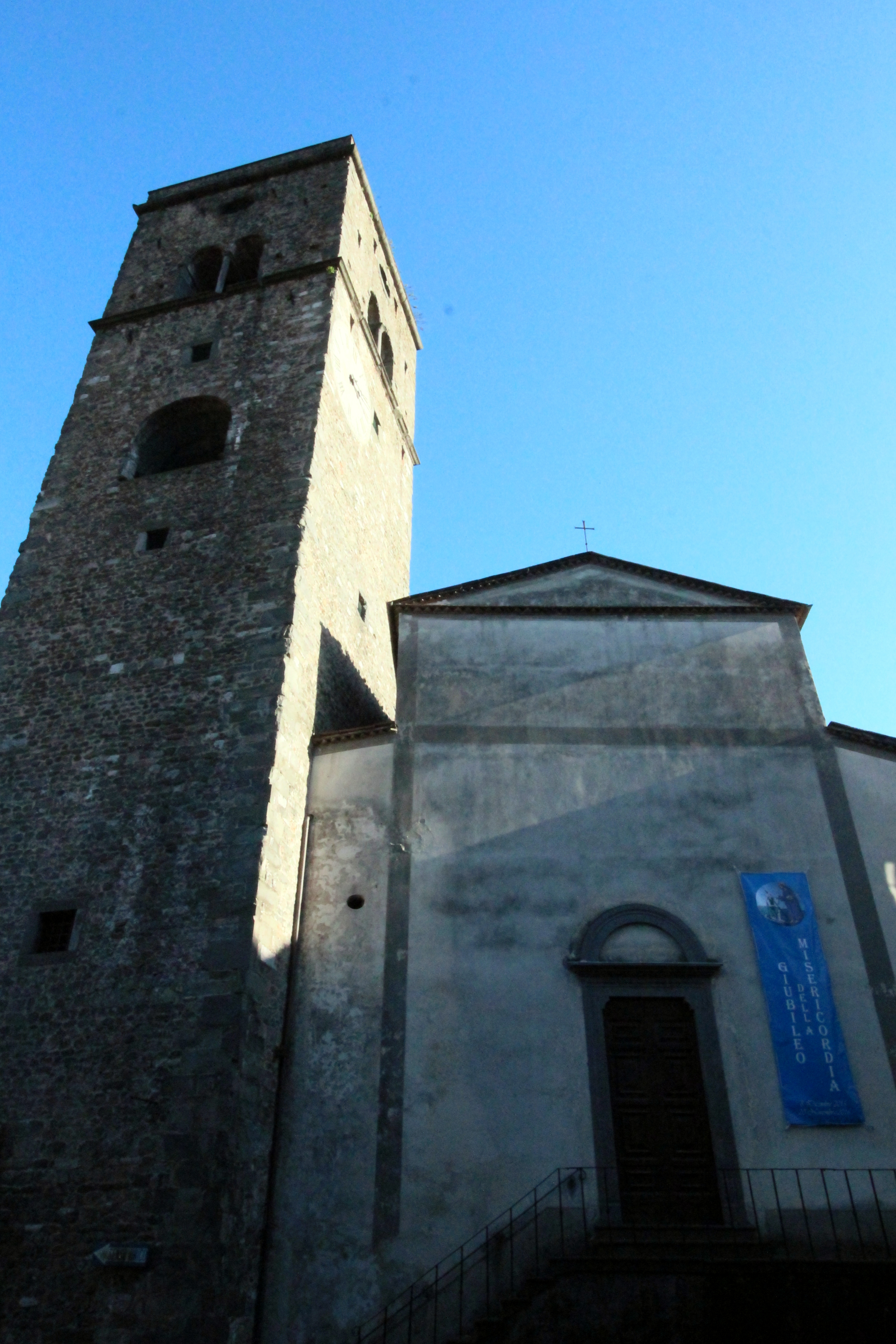 Church of San Jacopo in Borgo a Mozzano, Province of Lucca, Tuscany, Italy